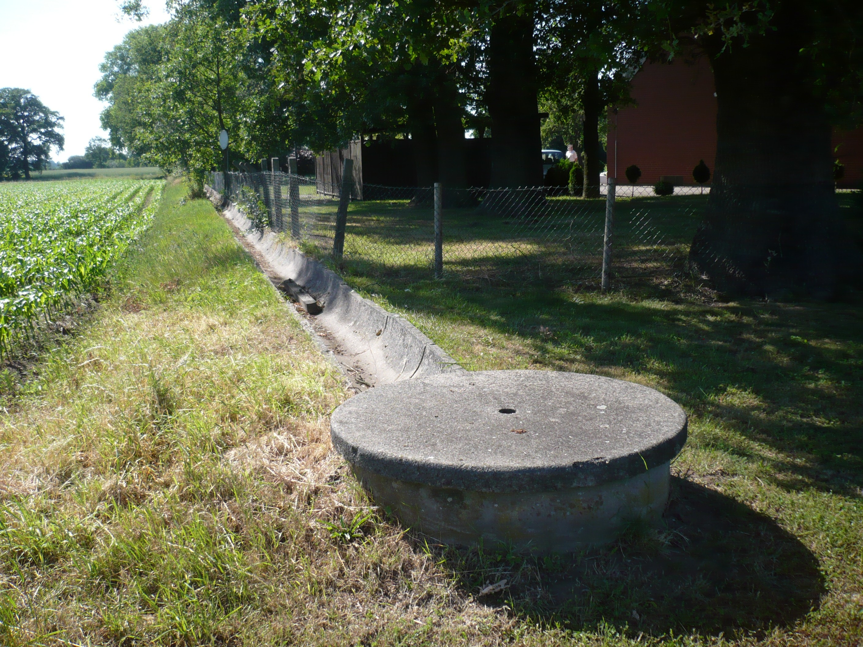 Open sewage pipe to the drainage fields Münster, Coerder Liekweg